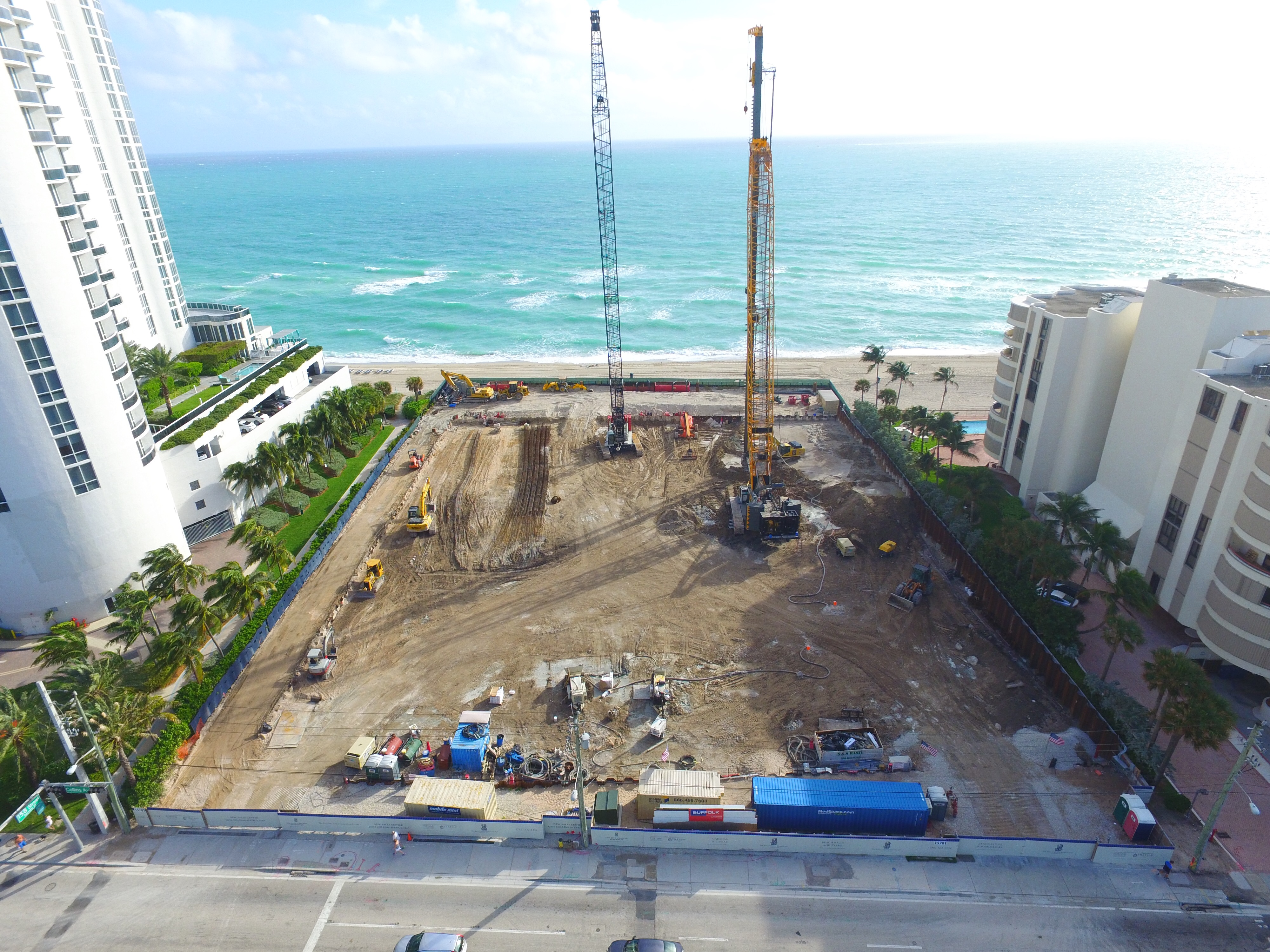 Ritz Carlton Residences in Miami